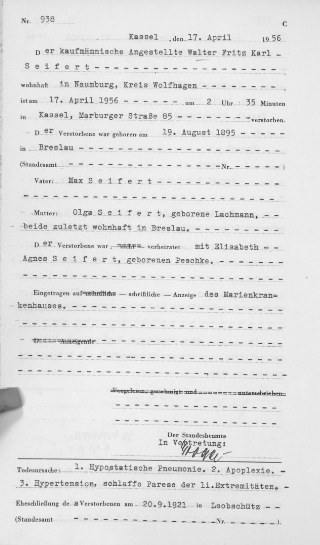 Death Certificate of the SS-functionar Walter Seifert (1895-1956).